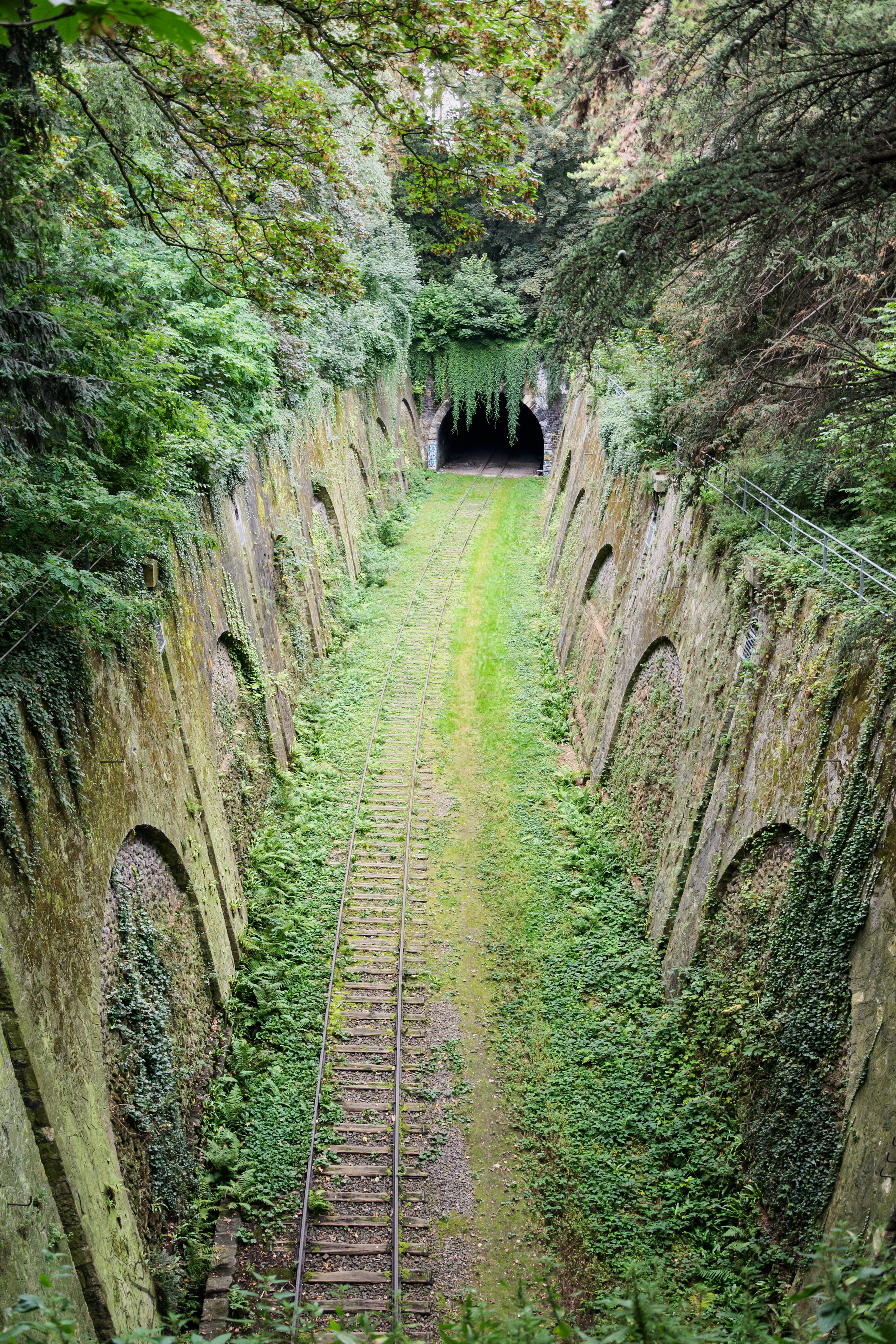 The Petite Ceinture railway line ("Little Belt railway") passing through the parc Montsouris, 14th arrondissement of Paris, France.